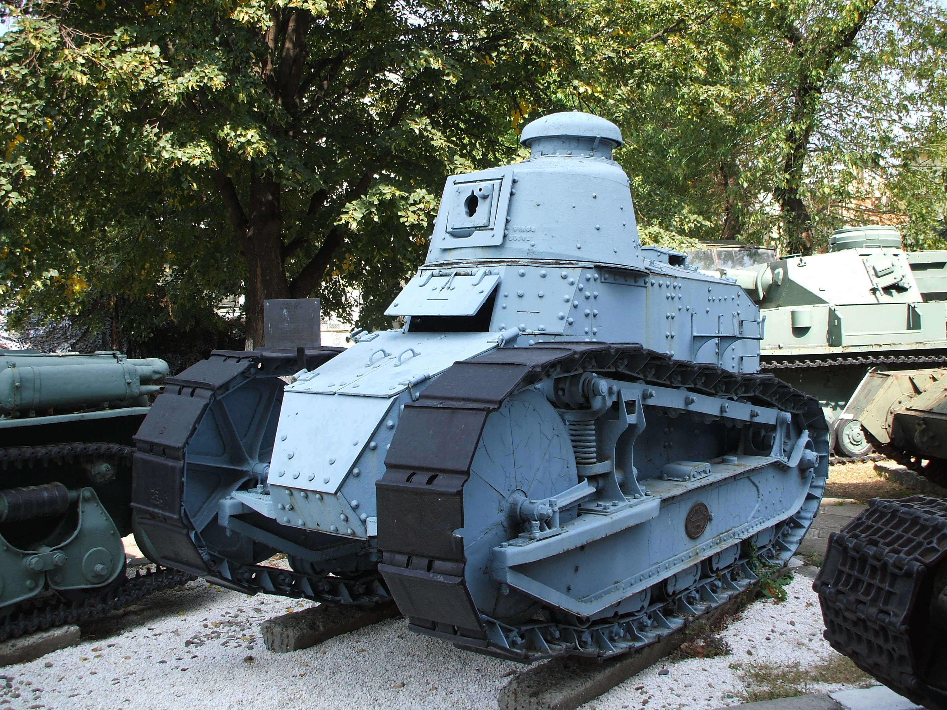 A Renault FT17 light tank on display at the National Military Museum in Bucharest, Romania.